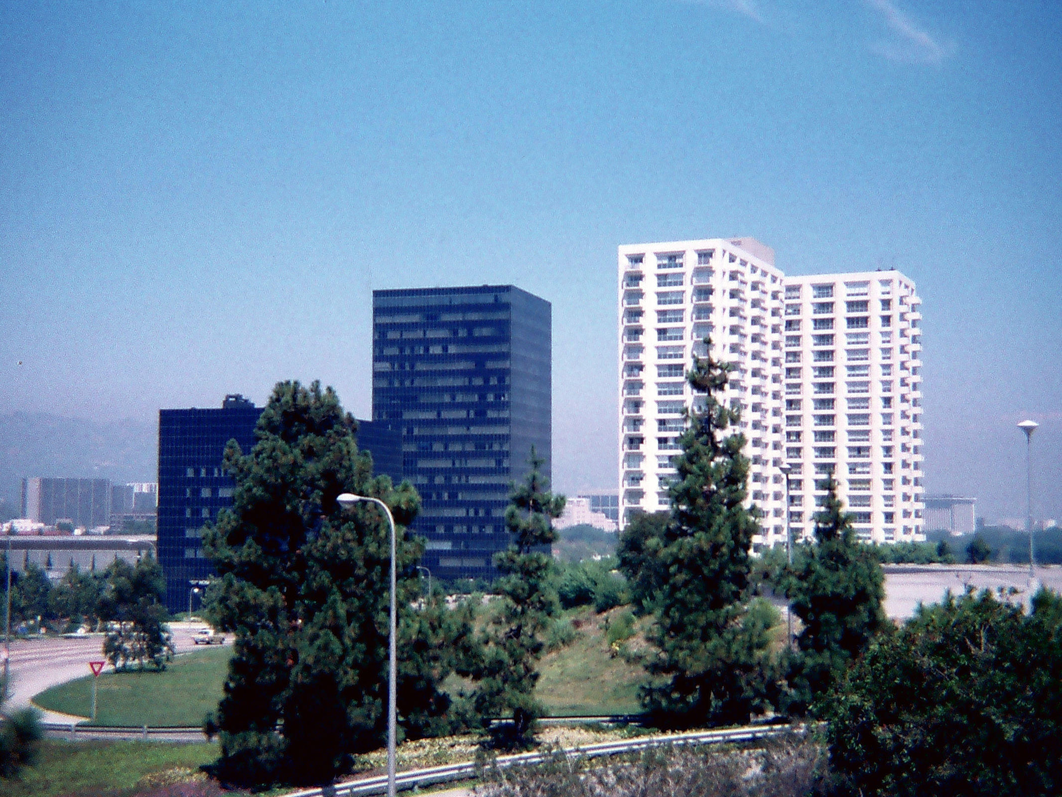 Century City Medical Center and Century Park East apartments in Century City, California.